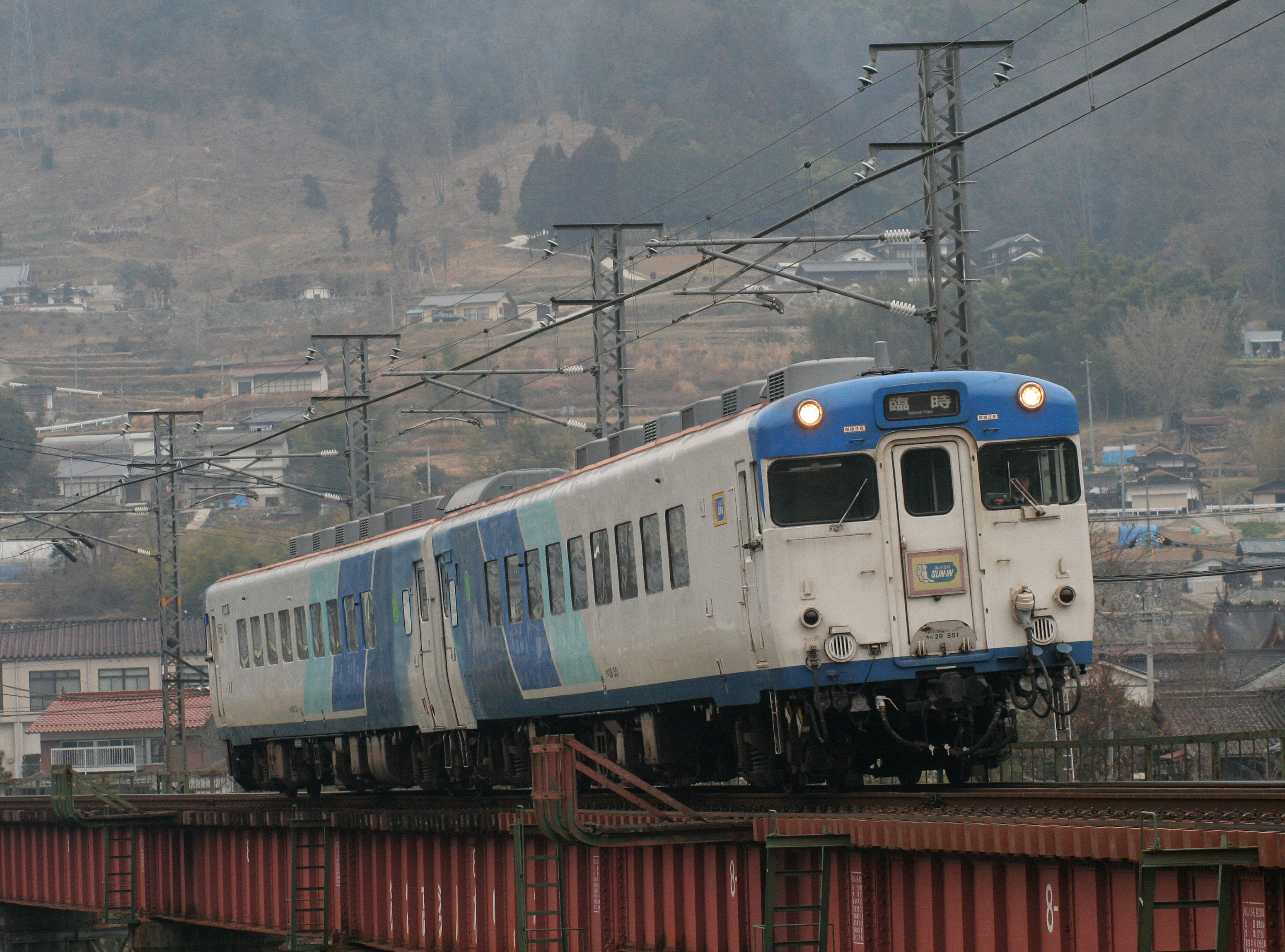 West Japan Railway Honobono SUN-IN kiro29-551 + kiro59-551 Hakubi Line kinoyama - Bitchu-kawamo